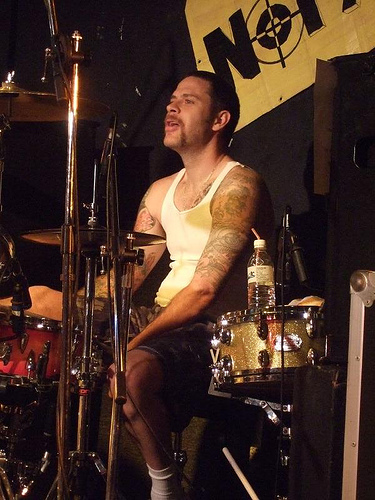 Eric Sandin